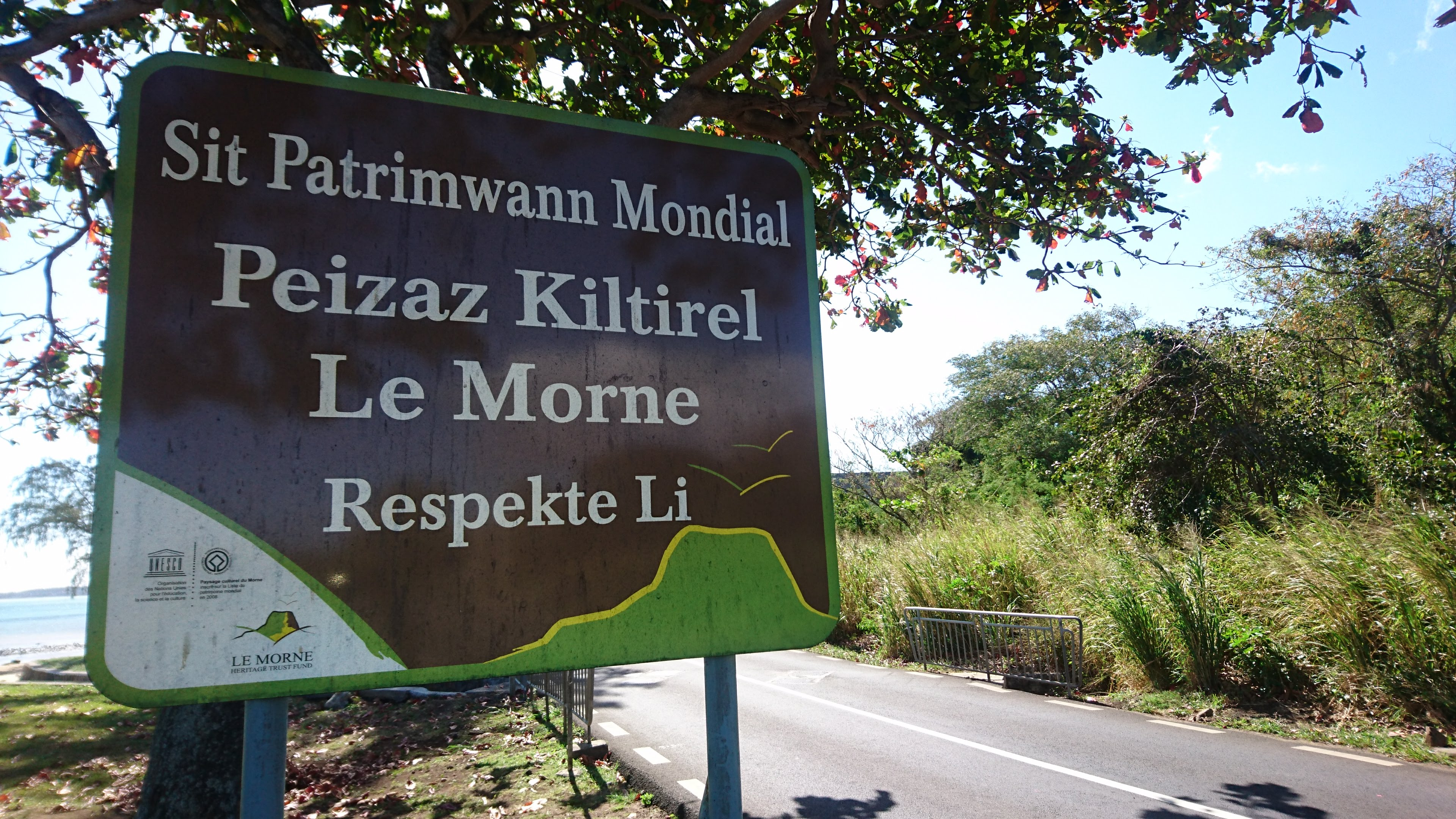 An anti-littering sign in Mauritian Creole.